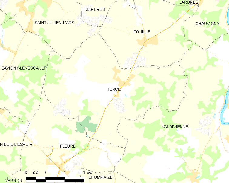 Map of French municipality Tercé